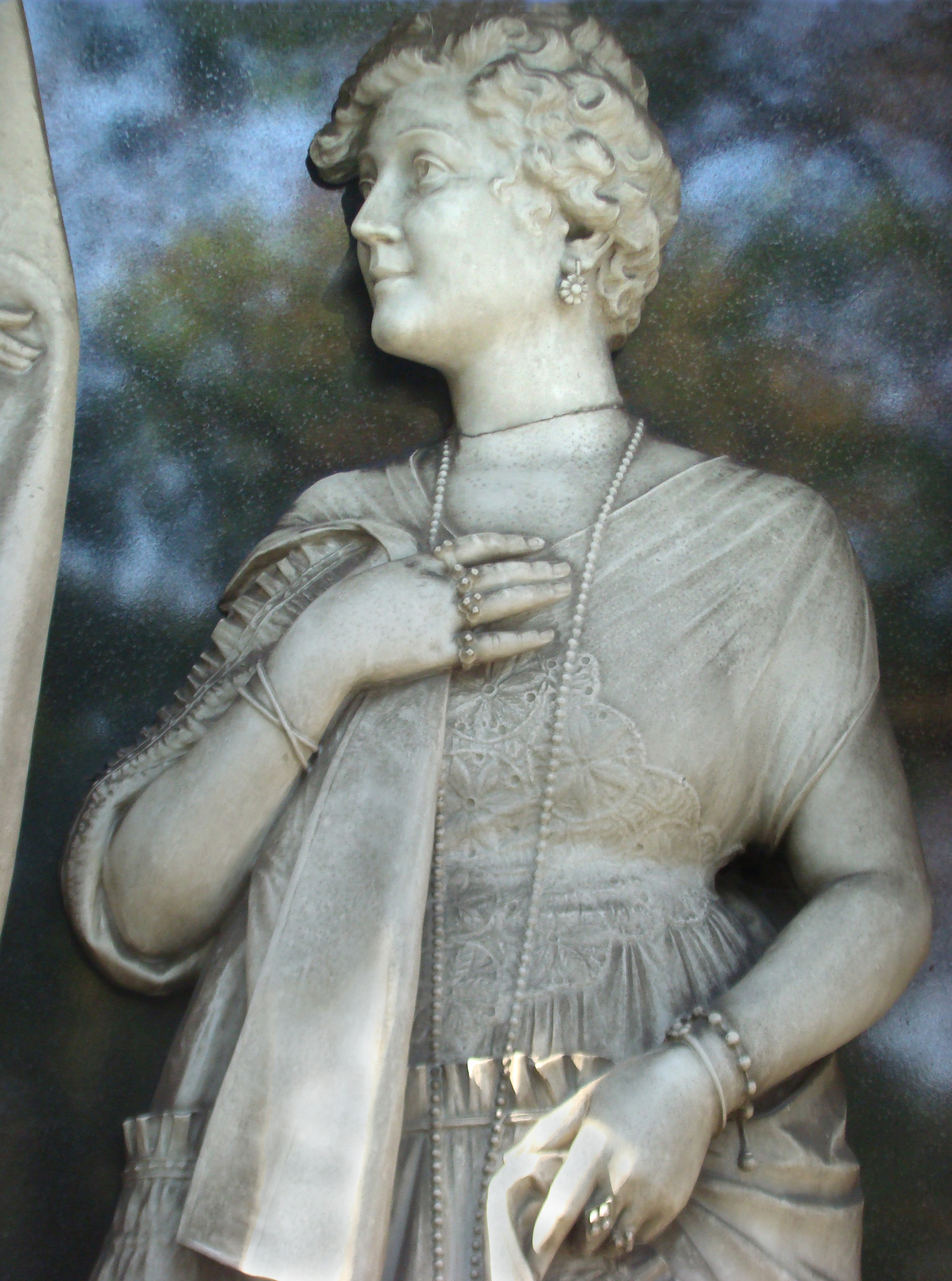 Wiktoria Kawecka, Polish operetta singer